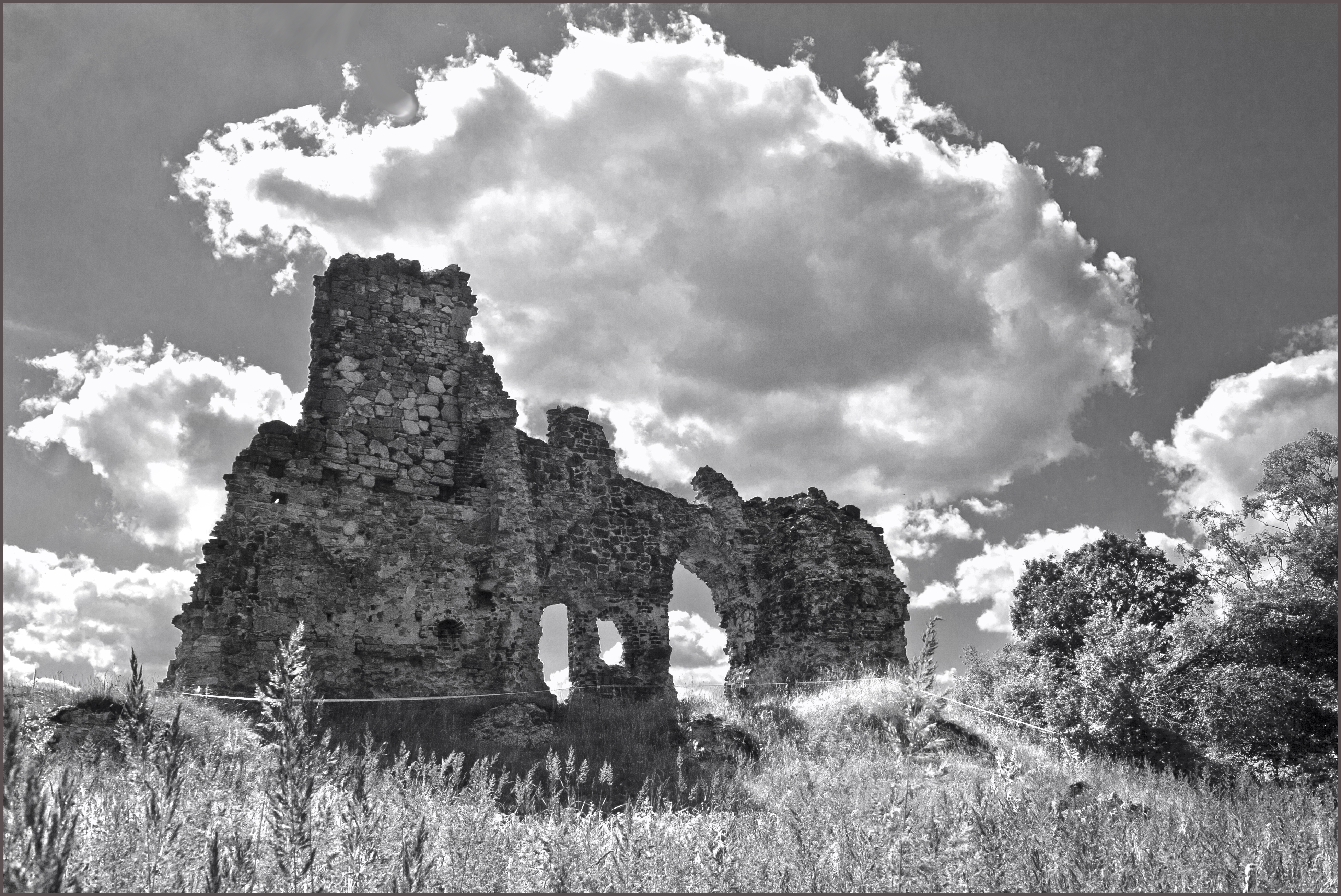 Aizkraukle Castle ruinsLatviešu: Aizkraukles pilsdrupas